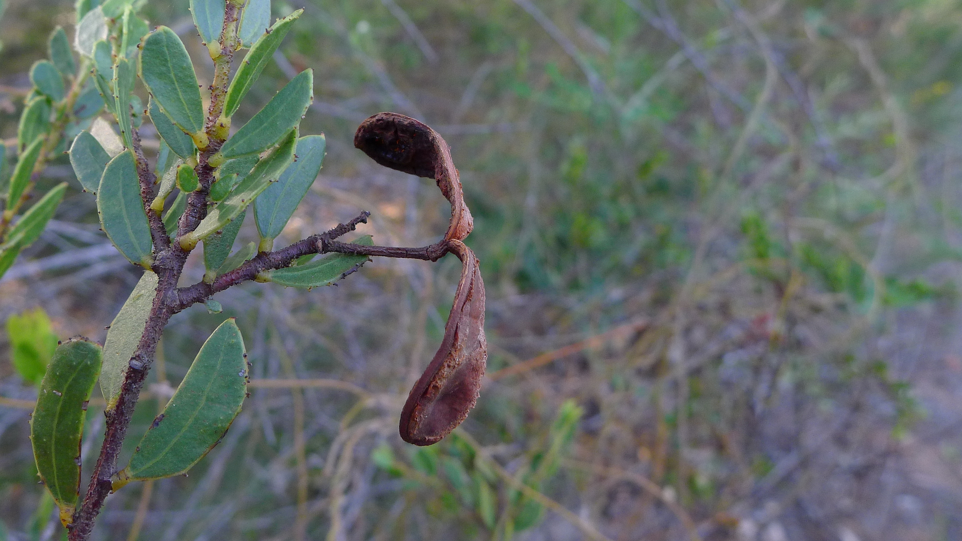 Rough Hairy Wattle, Acacia hispidula, seed pod. Heathcote National Park, NSW Australia, May 2013.